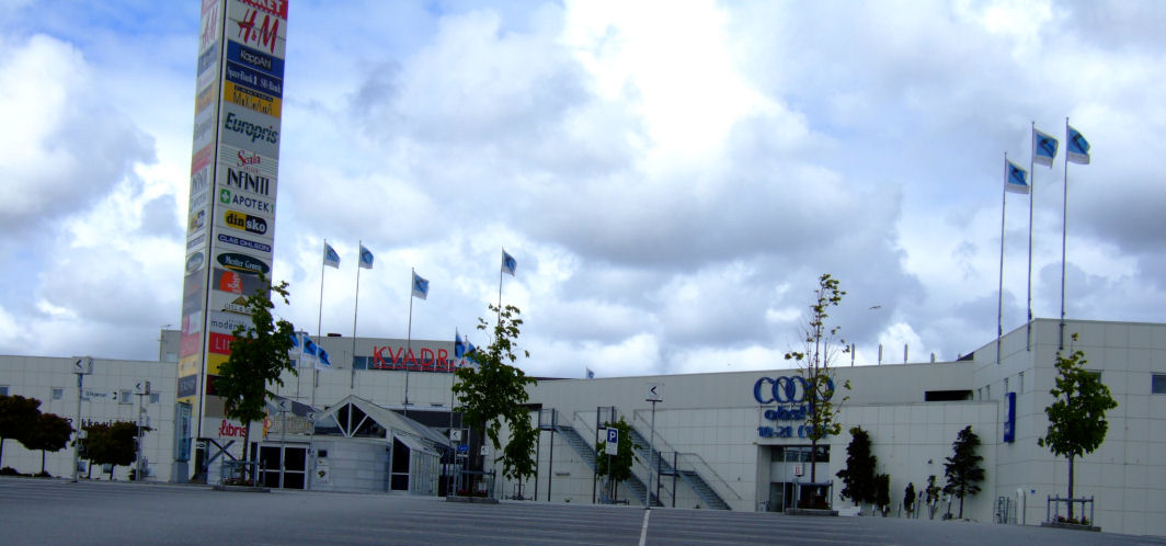 Kvadrat Shoppingcenter in Sandnes, Norway